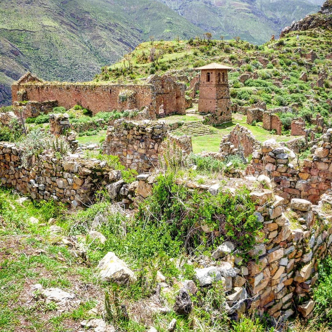 View of the Ancient Village of Huaquis. The picture shows the colonial temple and the freestanding bell tower.